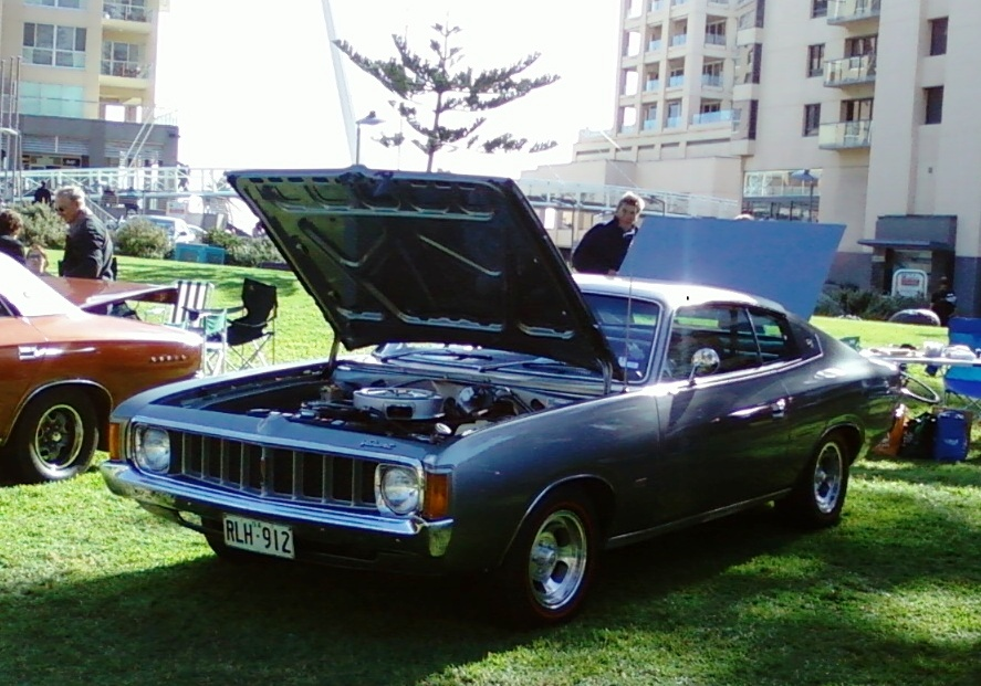 1973 Chrysler VJ Valiant Charger 770. This particular car is fitted with the rare E55 option which is basically the 340 cubic inch (4 bbl) V8 engine with automatic transmission.